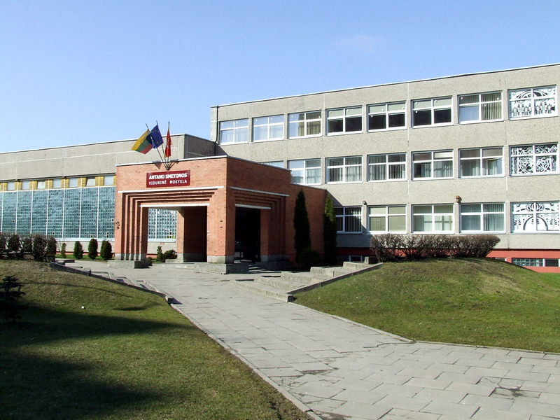 Kaunas Antanas Smetona Gymnasium